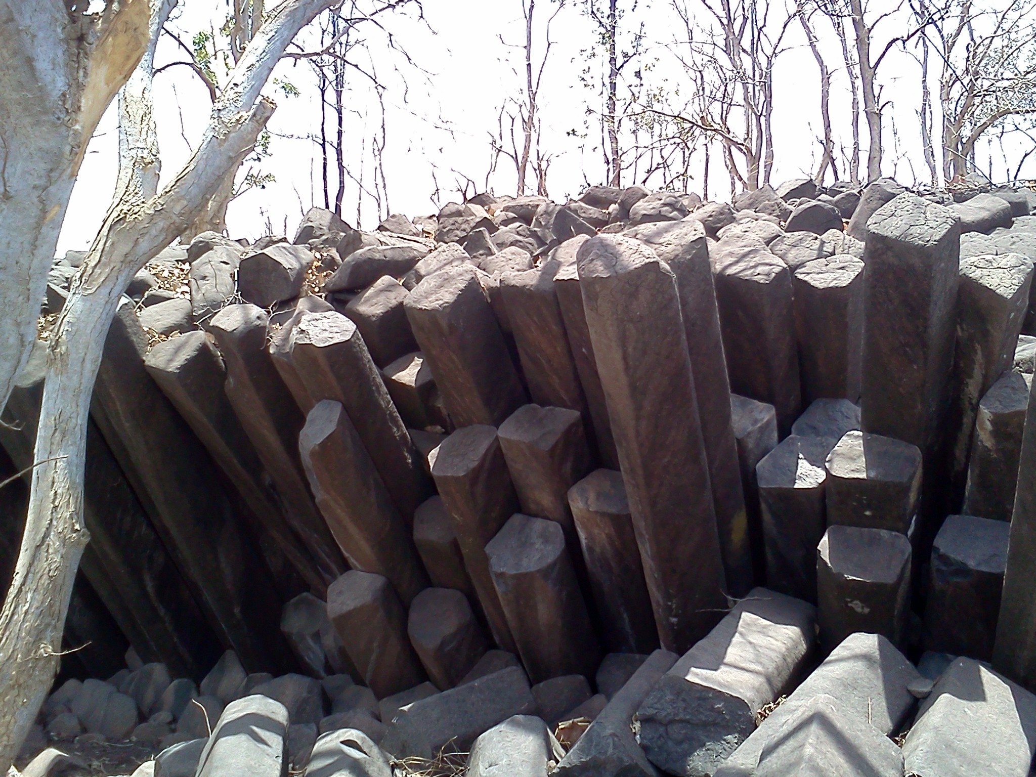 This is a view of interlocked basaltic columns at the top of Kavadia mountain at Dewas district of INDIA , Picture shows the lenght of rocks and columnar structure.